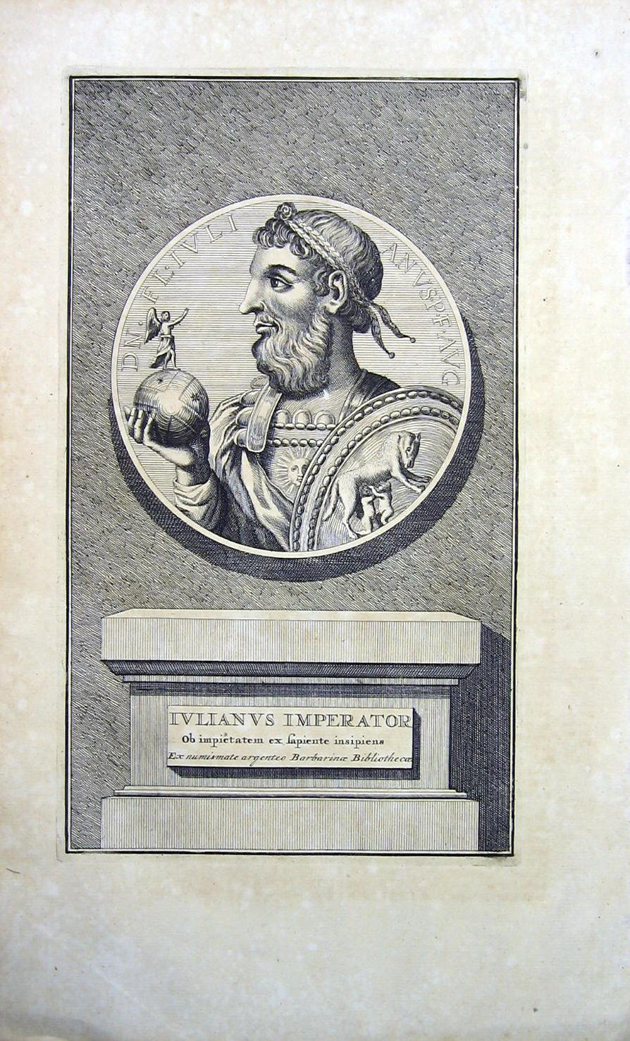 Julian the Apostata imperator